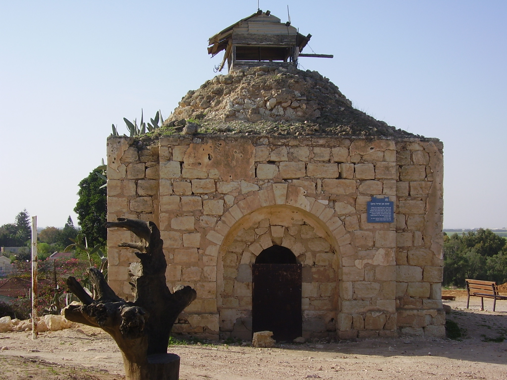 sheikh nuran grave , kibbutz magen, israel קבר שייח' נוראן בקיבוץ מגן